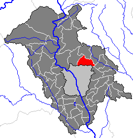 This map shows the area of the Gemeinde (municipality) Weinitzen in the Bezirk (district) Graz-Umgebung, Styria, Austria.